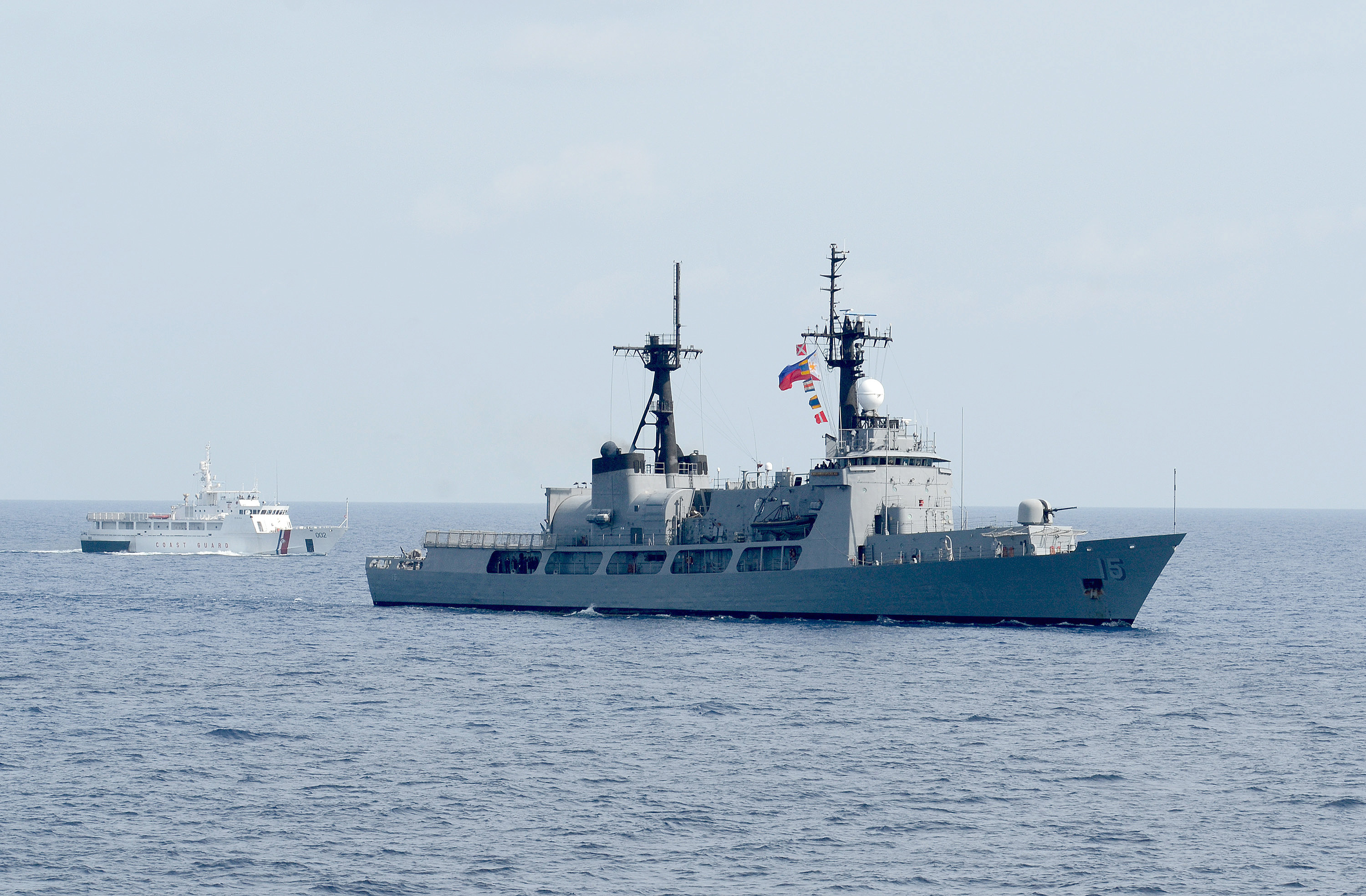 PHILIPPINE SEA (June 29, 2013) The Philippine Coast Guard vessel Edsa (SARV 002), left, and the Philippine Navy frigate Gregorio Del Pilar (PF 15) steam in formation during Cooperation Afloat Readiness and Training (CARAT) Philippines 2013. More than 600 Sailors and Marines are participating in CARAT Philippines 2013. U.S. Navy units participating in CARAT Philippines include the Fitzgerald with embarked Destroyer Squadron (DESRON) 7 staff, a U.S. Marine Corps landing force, and the diving and salvage vessels USNS Safeguard (T-ARS 50) and USNS Salvor (T-ARS 52) with embarked Mobile Diving and Salvage Unit (MDSU) 1. CARAT is a series of bilateral military exercises between the U.S. Navy and the armed forces of Bangladesh, Brunei, Cambodia, Indonesia, Malaysia, the Philippines, Singapore, Thailand, and Timor Leste.